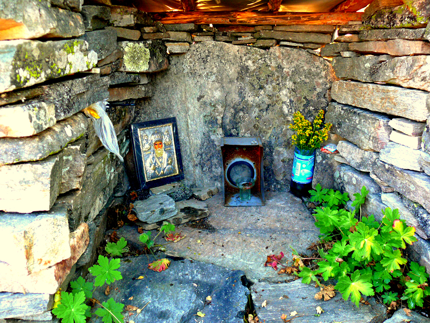 Studagrada_Rhodopes_Bg_Ancient_Tracian_Sanctuary_5